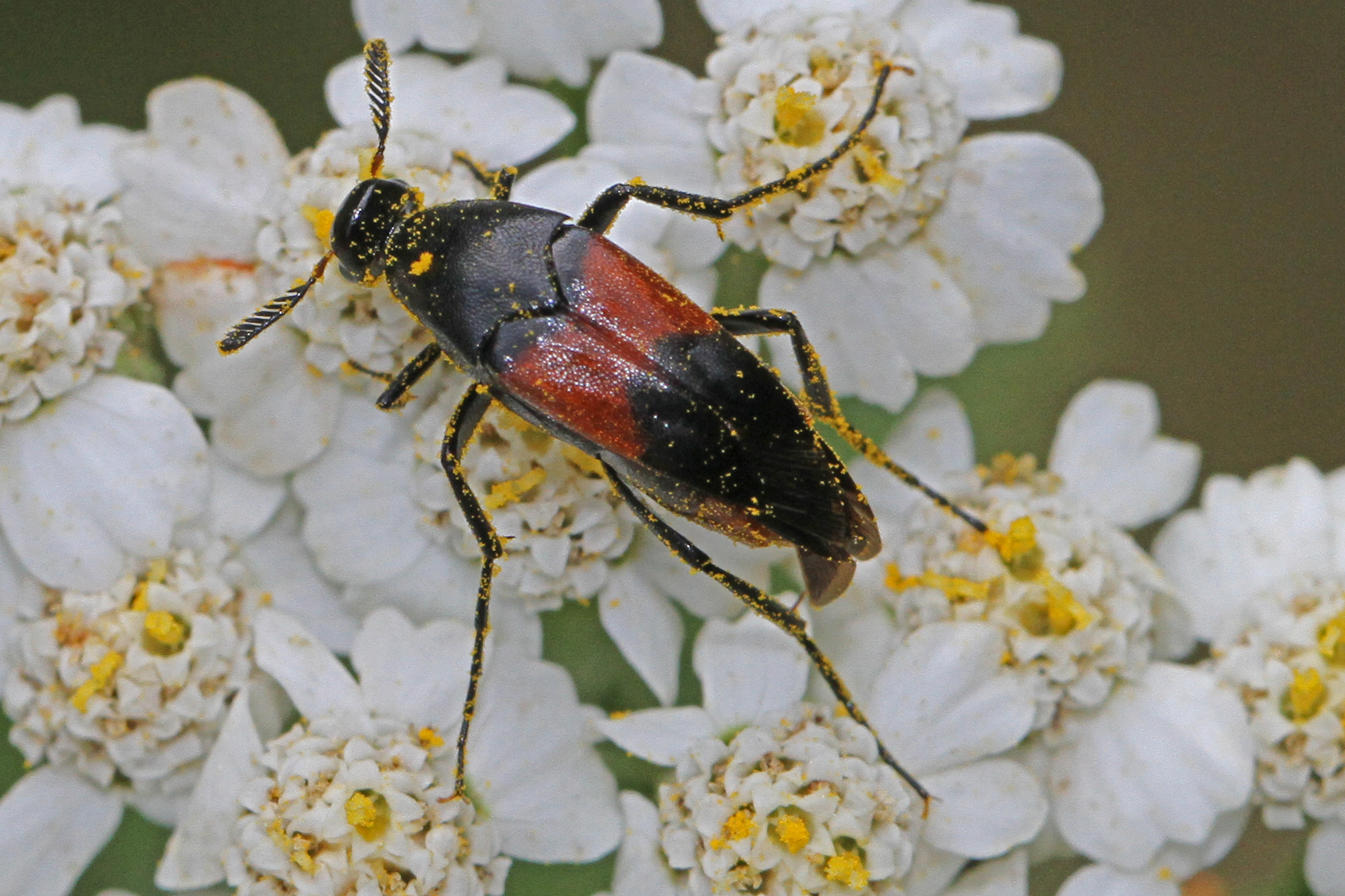 Wedge-shaped Beetle - Macrosiagon pectinata - Julie Metz Wetlands, Woodbridge, Virginia.